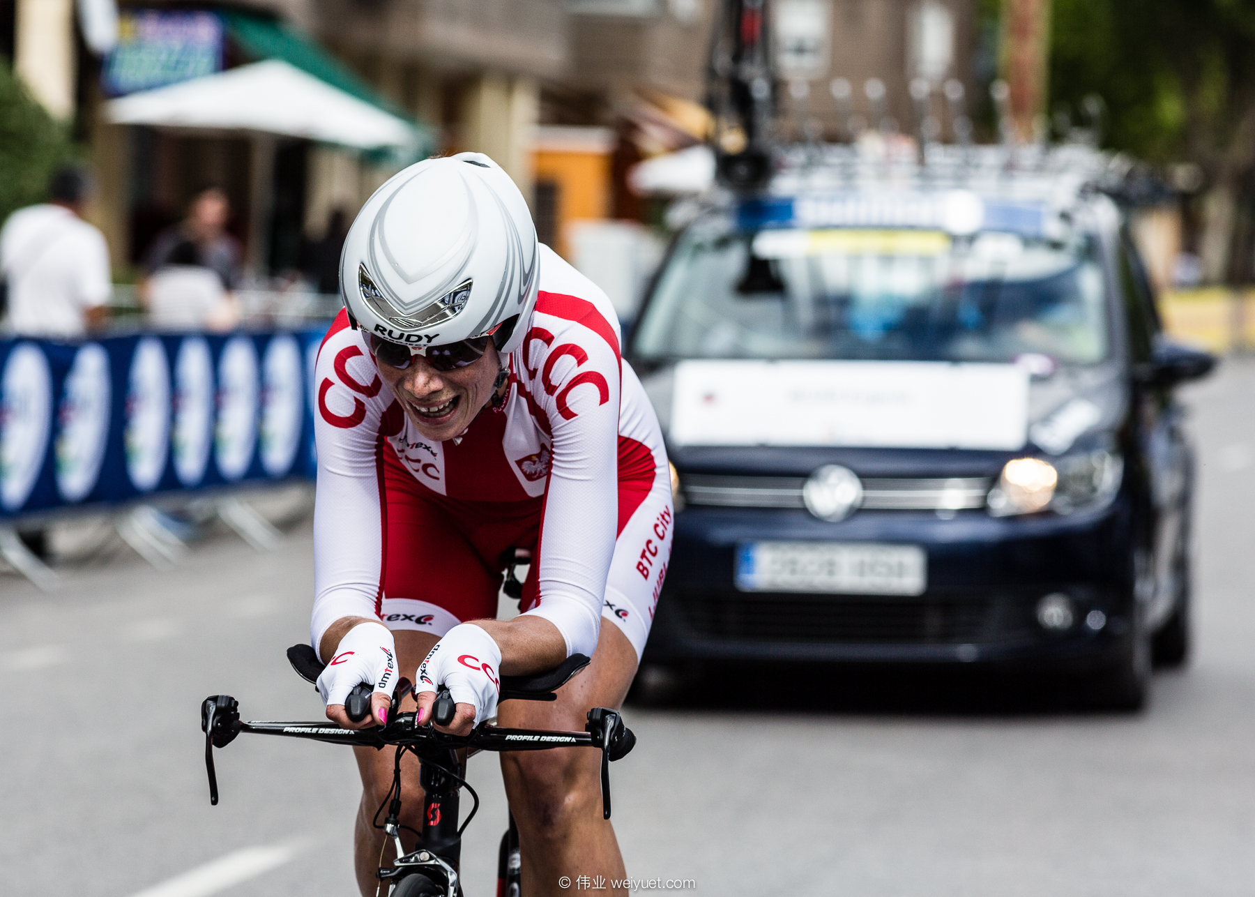 ITT Women's Elite